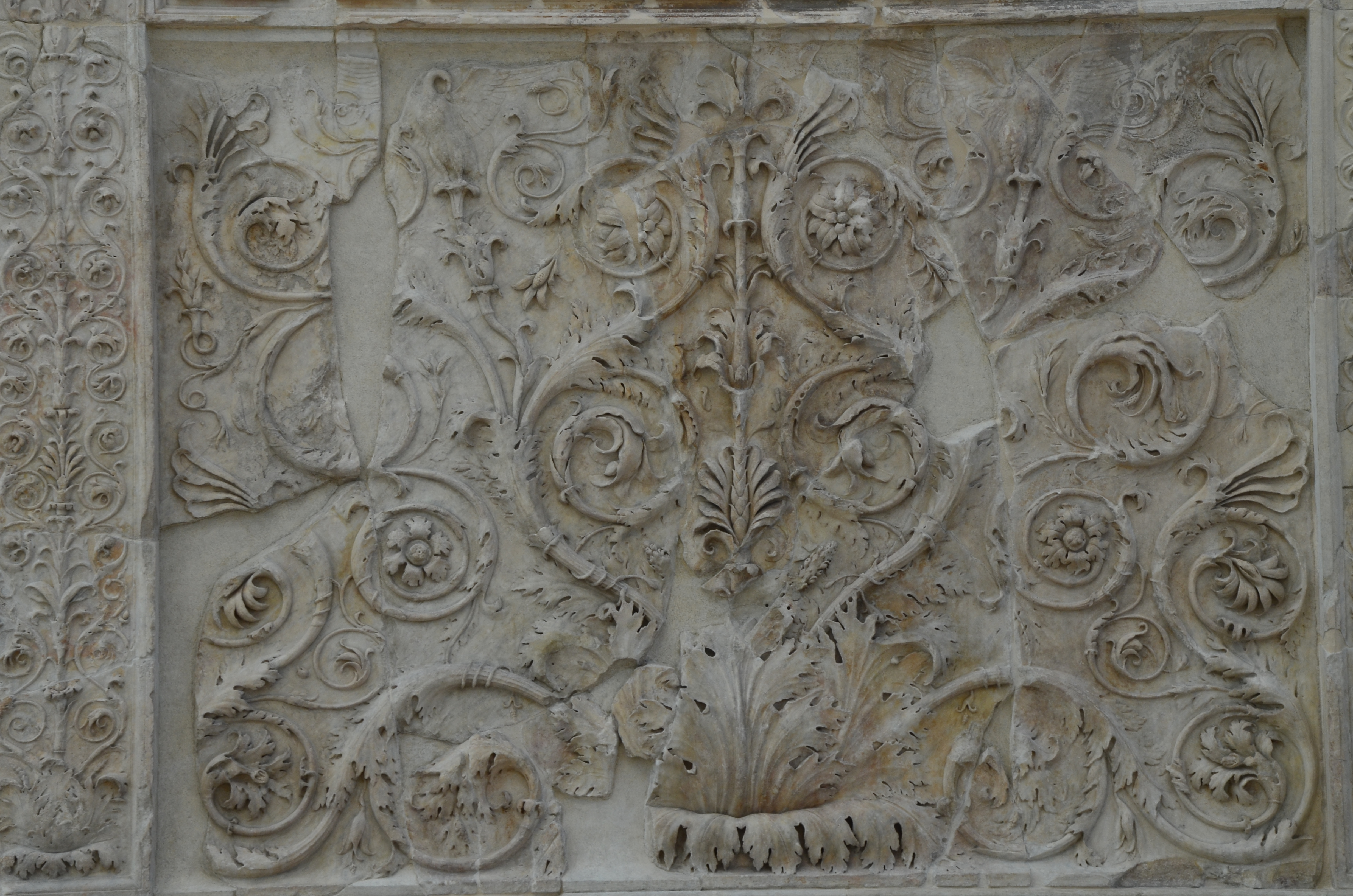 The Ara Pacis Augustae or Altar of the Augustan Peace, built to celebrate the return of Augustus to Rome in 13 BC following campaigns in Spain and Gaul, Museo dell'Ara Pacis, Rome